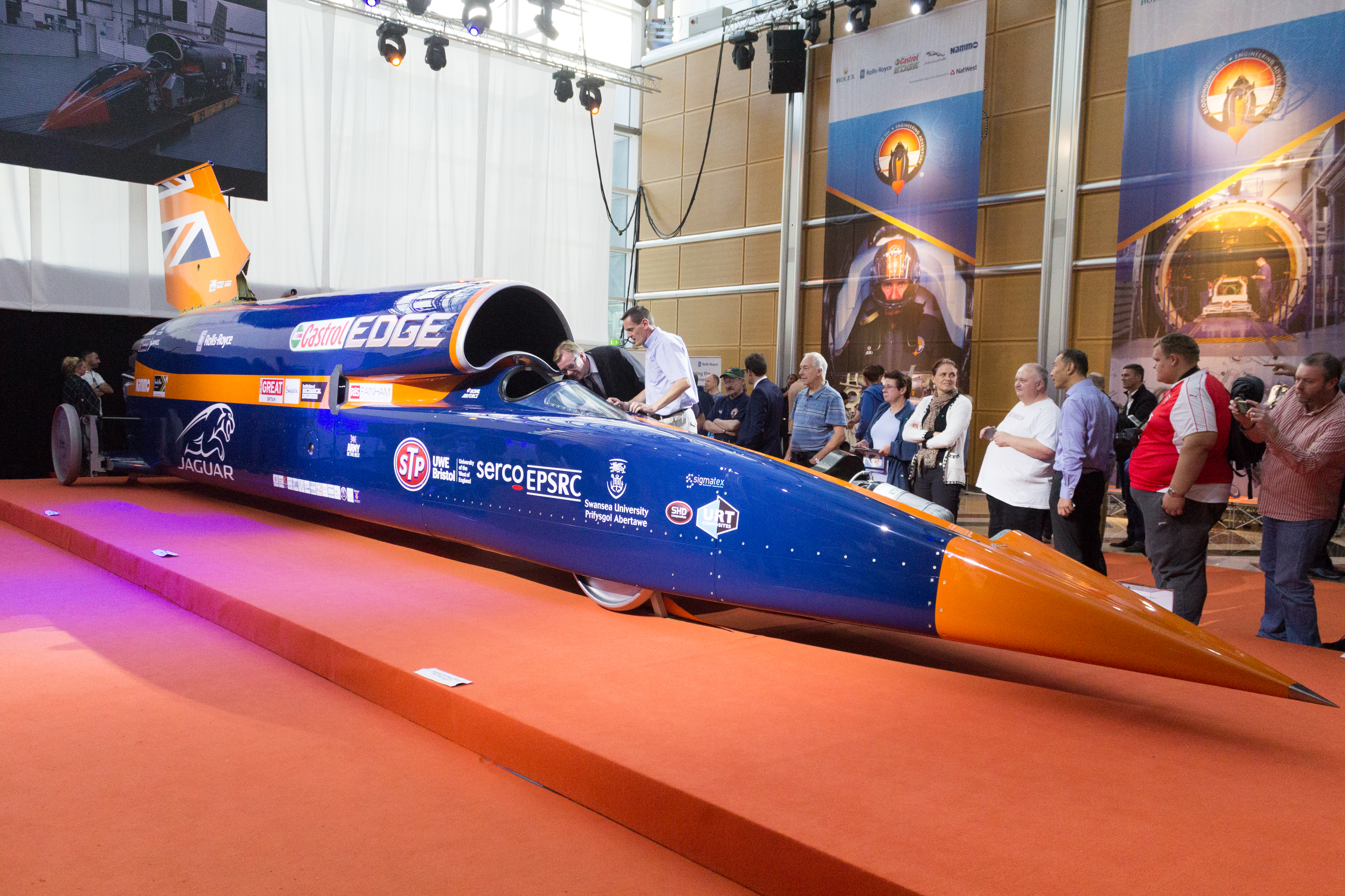 Bloodhound SSC exhibition, Canary Wharf September 2015